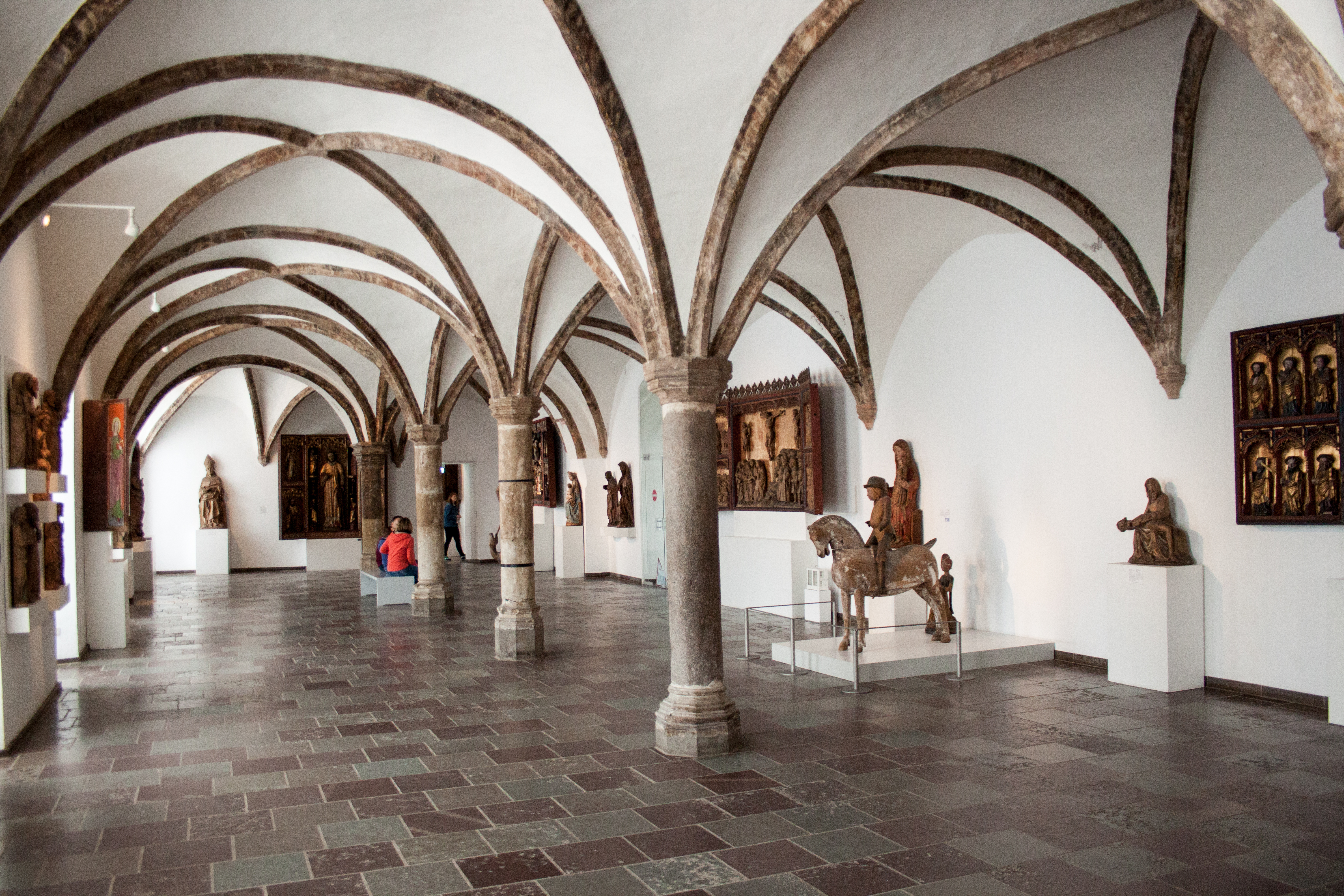 Schloss Gottorf, Interior